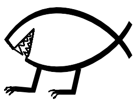 Cleaned up version of File:Darwinbish.jpg to remove jpeg artifacts